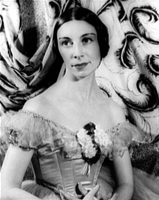 Portrait of Alicia Markova, "Foyer de Danse". Photo taken by Carl Van Vechten, photographer.